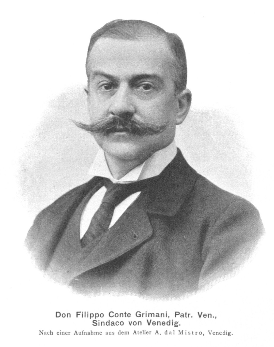 Portrait of Filippo Grimani (1850-1921), mayor of Venice.